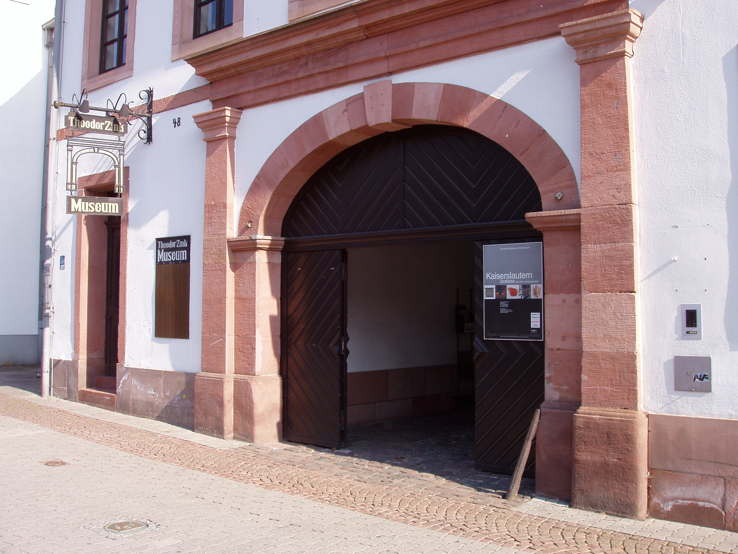 Entrance of the Theodor-Zink museum in Kaiserslautern.